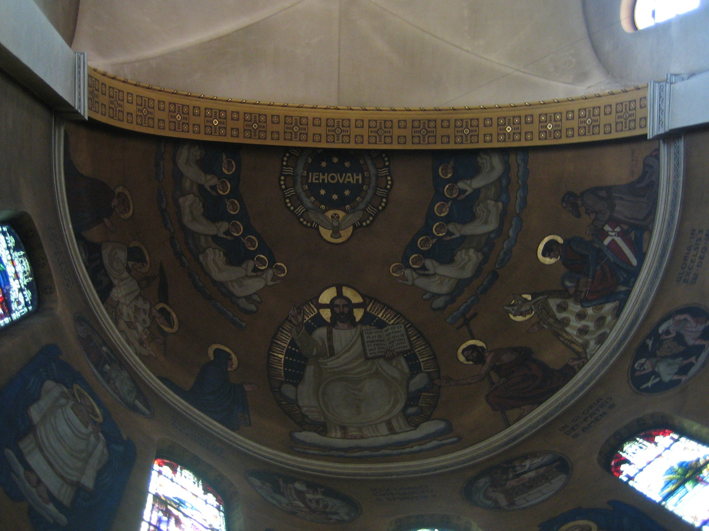 Latin version of divine name "Jehovah" at a Roman-Catholic church named St. Martinskirche Olten, Switzerland.